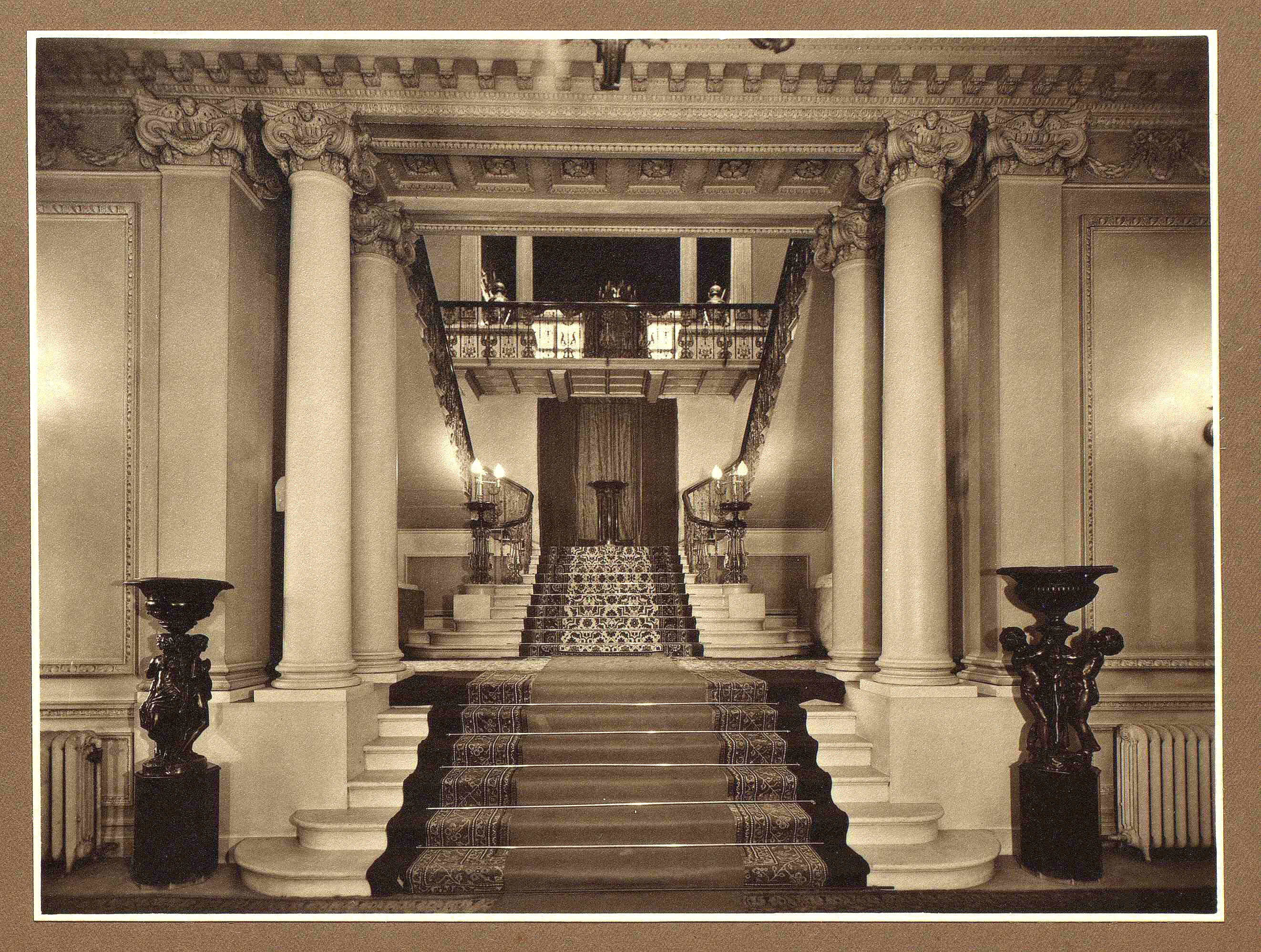 Creator: unknown Date: 1920s Original Format: Photographic print Description: The central staircase at Londonderry House, Park Lane, London c.1920s PRONI Ref: D4567/2/23 Copying and copyright: Please For Copy Orders, contact